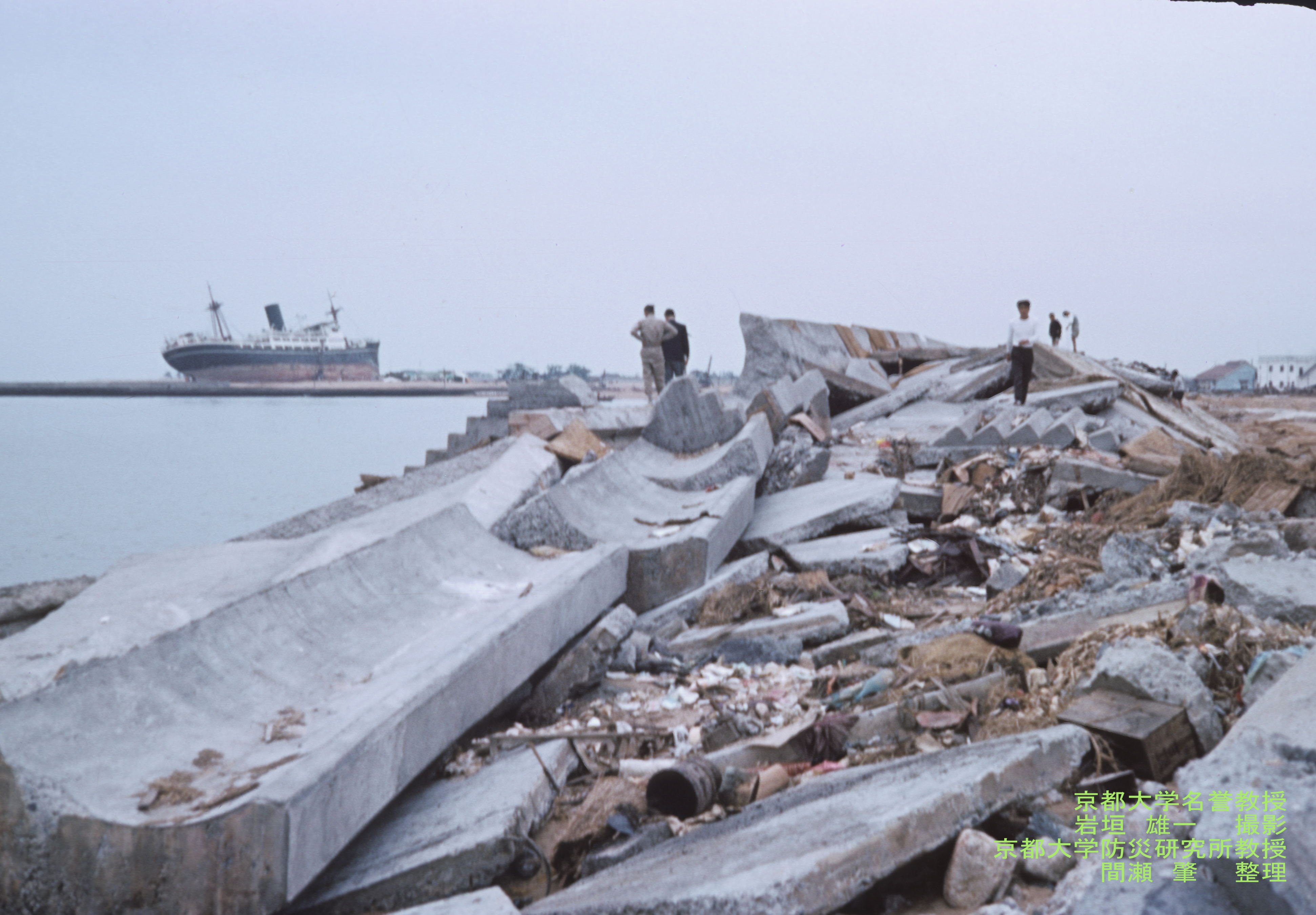 Damage to a portion of seawall after Typhoon Vera struck Japan.